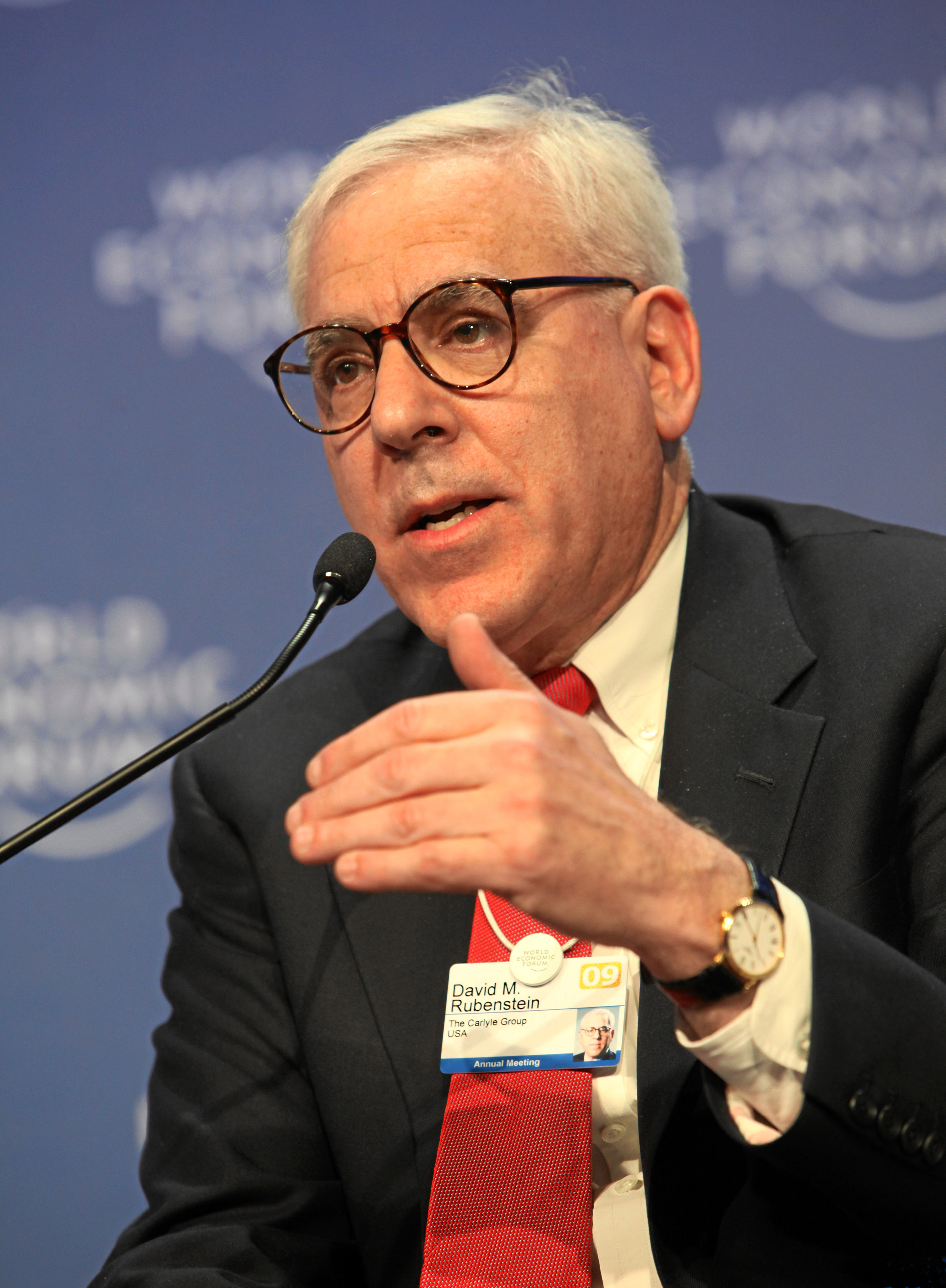 David M. Rubenstein, Co-Founder and Managing Director, Carlyle Group, USA captured during the session 'Advice to the US President on Competitiveness' at the Annual Meeting 2009 of the World Economic Forum in Davos, Switzerland, January 30, 2009.